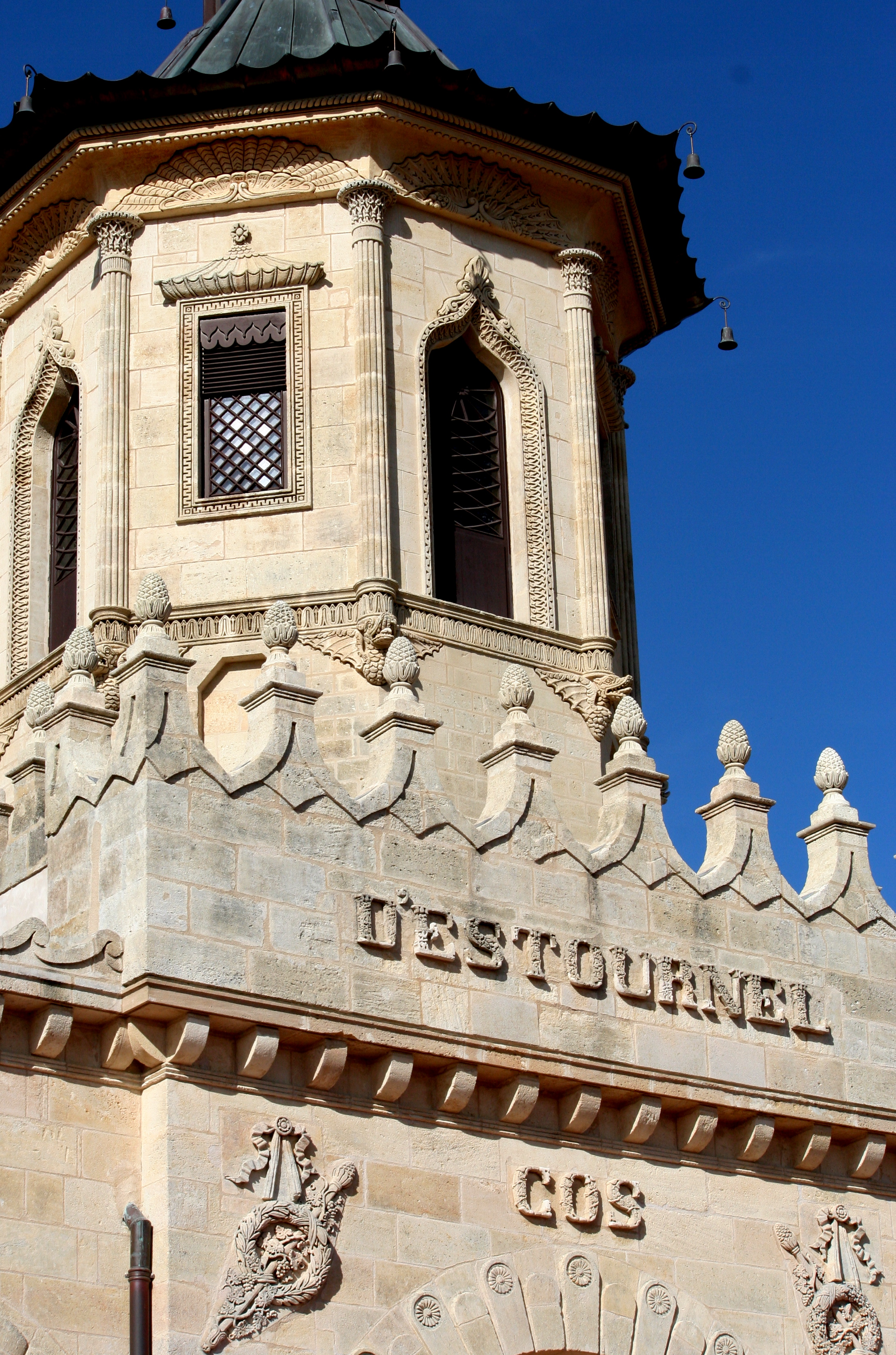 Wine producer in St-Estephe in the Medoc, Bordeaux France